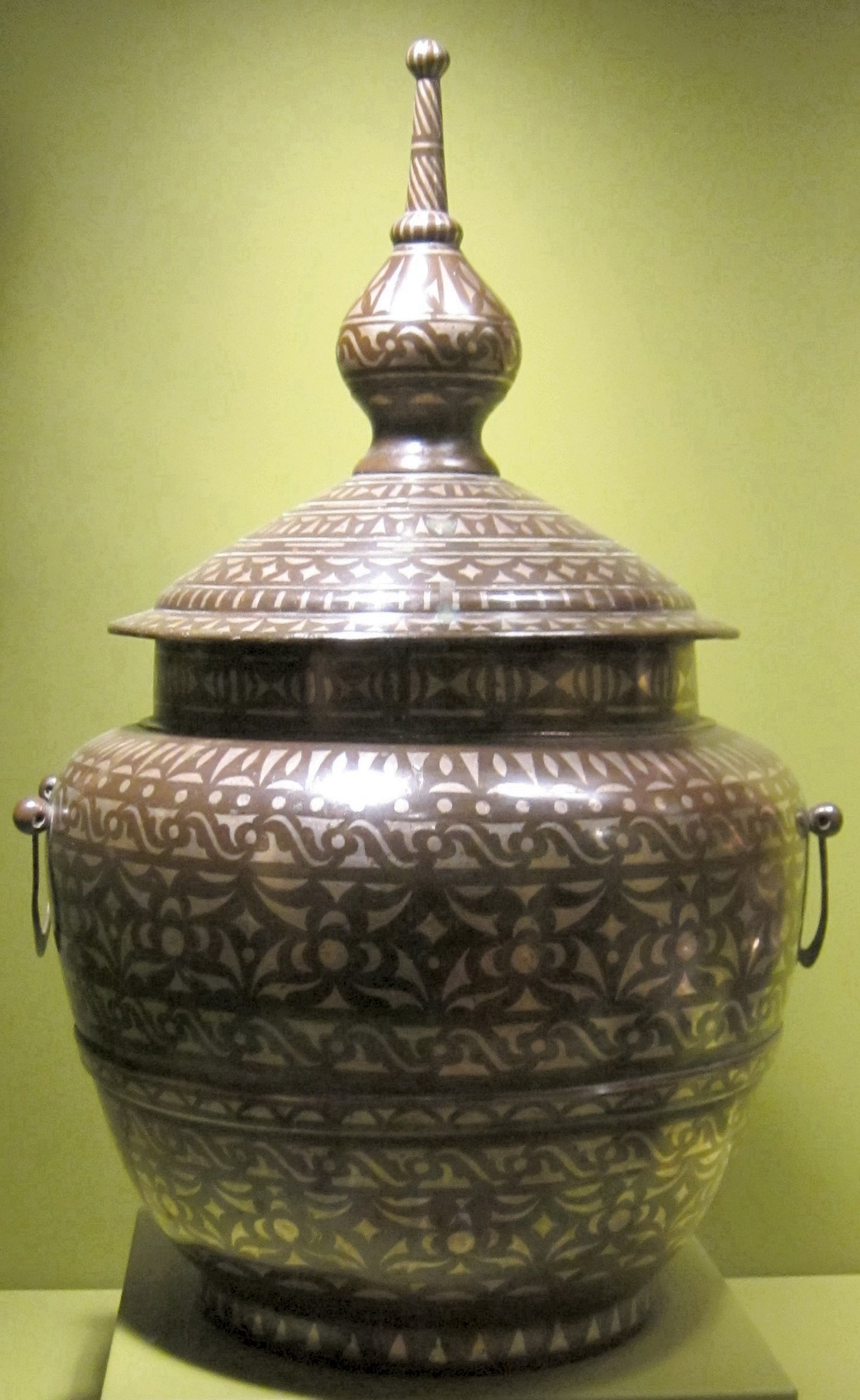 Food jar (gadur), Mindanao, Maranao, brass with silver inlay, Honolulu Academy of Arts